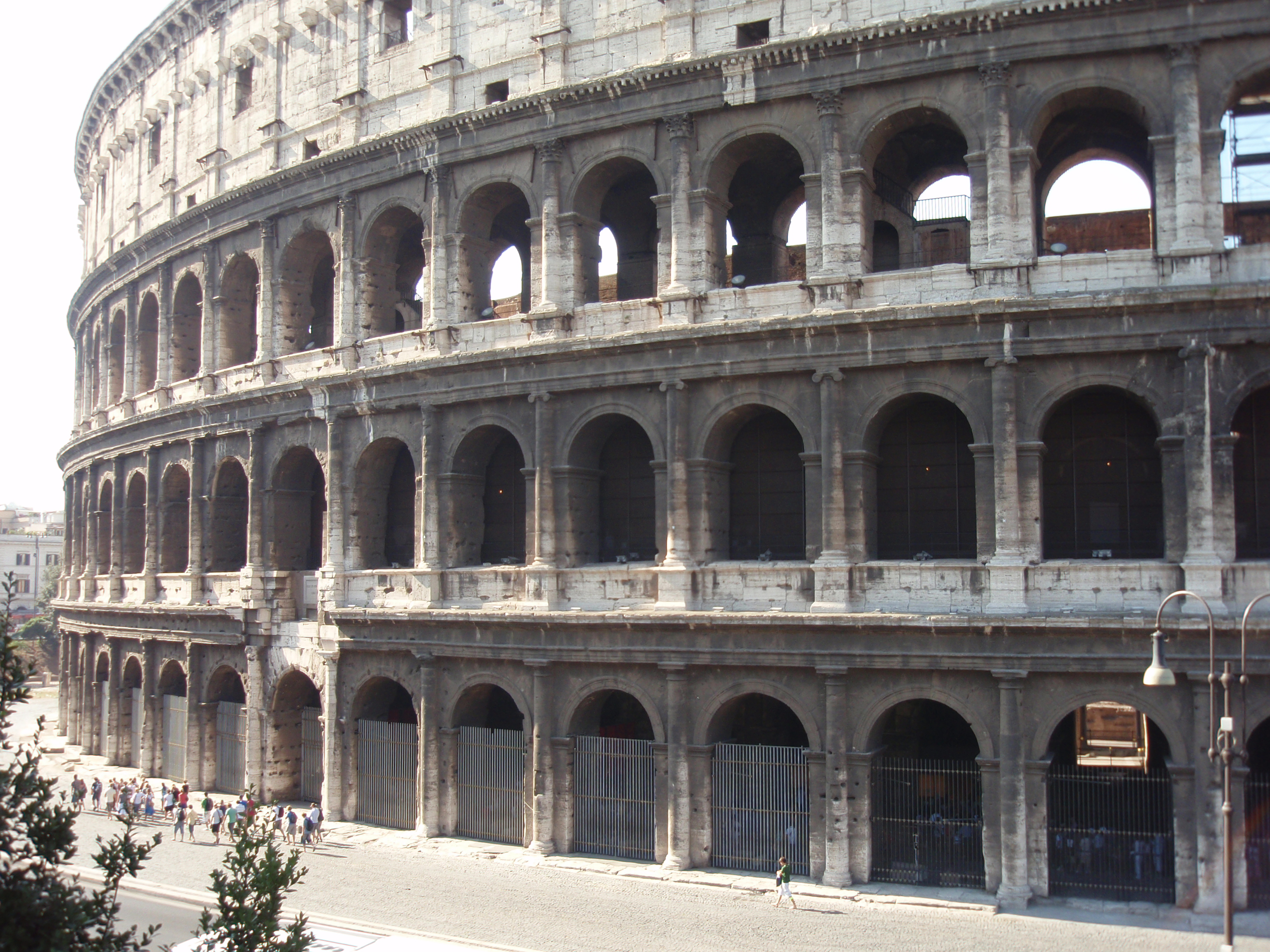 The Colosseum in Rome.